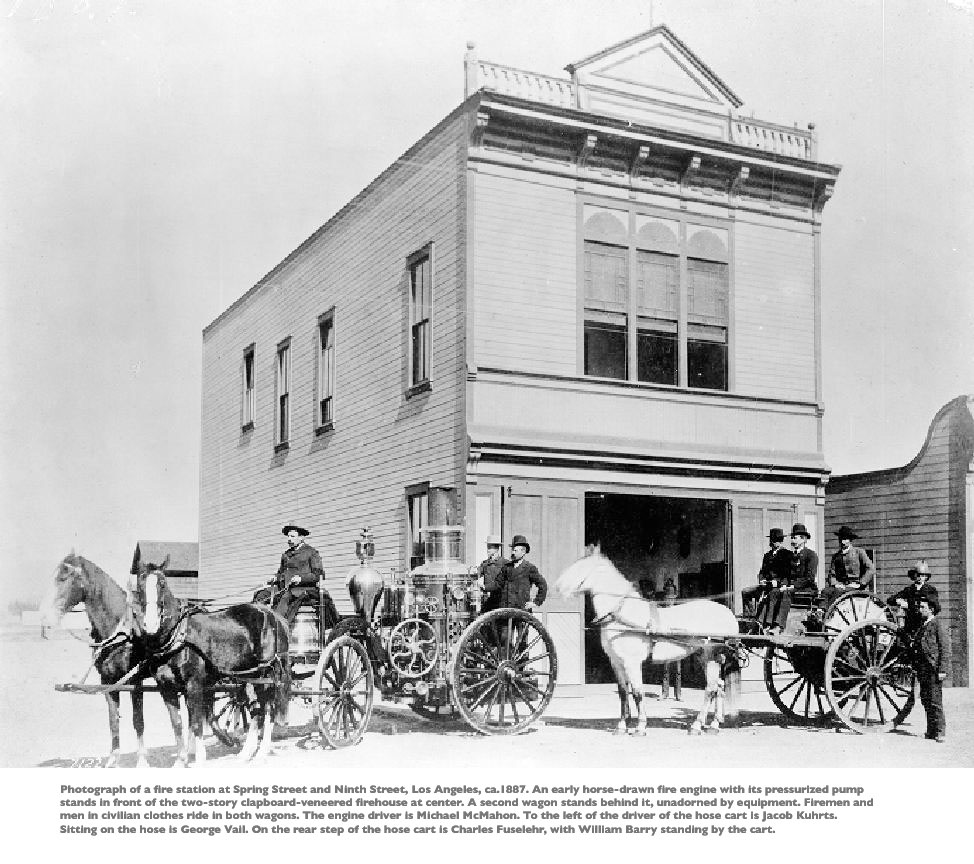 Photograph of a fire station at Spring Street and Ninth Street, Los Angeles, ca.1887. An early horse-drawn fire engine with its pressurized pump stands in front of the two-story clapboard-veneered firehouse at center. A second wagon stands behind it, unadorned by equipment. Firemen and men in civilian clothes ride in both wagons. The engine driver is Michael McMahon. To the left of the driver of the hose cart is Jacob Kuhrts. Sitting on the hose is George Vail. On the rear step of the hose cart is Charles Fuselehr, with William Barry standing by the cart.